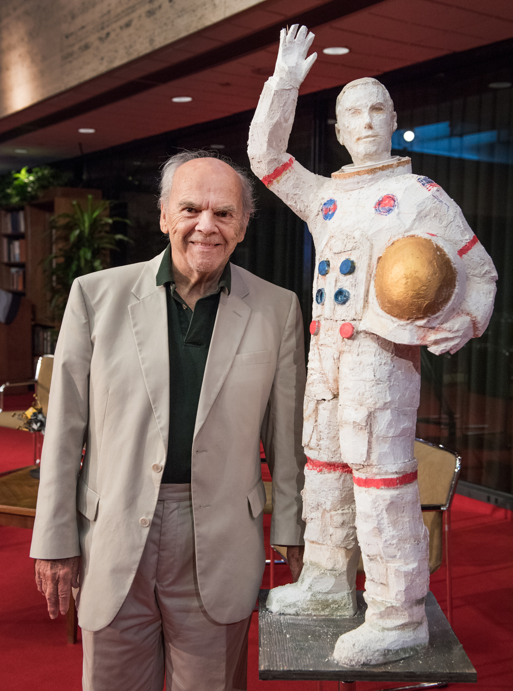 David Adickes and a model of his astronaut statue.LBJ Early College High School students discovered what it’s like to spend a year in space when they talked to Commander Scott Kelly and Flight Engineer Mikhail Kornienko on board the International Space Station on Friday, October 23, 2015. The event was held at the LBJ Presidential Library, where the students also heard a presentation on NASA history and a panel discussion with a former astronaut and family members of former astronauts. LBJ Library photo by Jay Godwin